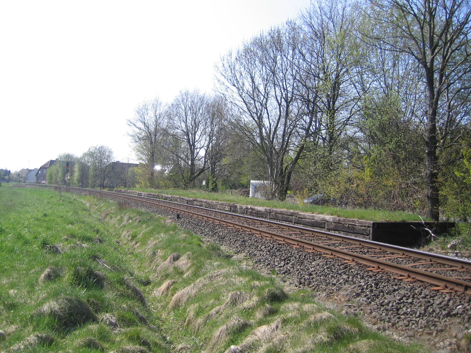 Wohlde, a typical German country halt on the Celle-Soltau line in Lower Saxony. The earth platform is faced with sleepers and rail sections and is about 70 yards long.